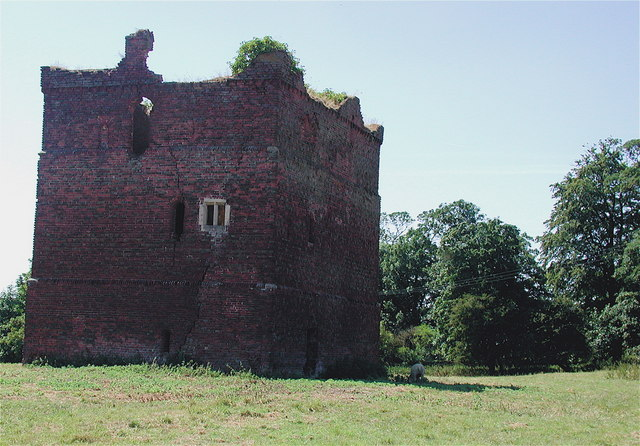 Paull Holme Tower, south east of Paull, East Riding of Yorkshire, England.Built by Robert Holme in the 15th century, Paull Holme Tower was originally part of an H-shaped group of buildings forming a fortified manor house. The tower is a Grade 1 listed building and scheduled ancient monument. The site includes the remains of a moat that used to surround the building, and it is believed that the only entrance to the tower was via a heavily-defended door and portcullis. The Holme family continued to live at Paull Holme until the early part of the 20th century but the decline of the tower as the family residence probably started in around 1640 during the English Civil War, when the building suffered damage at the hands of Cromwell's Parliamentary Army. By the 19th century the tower had ceased to be habitable and in 1871 Colonel Bryan Holme converted it into a lookout and gazebo. Local legend has it that the building is haunted by the ghost of a bullock which apparently climbed the tower steps in 1840 and fell to its death from the top.